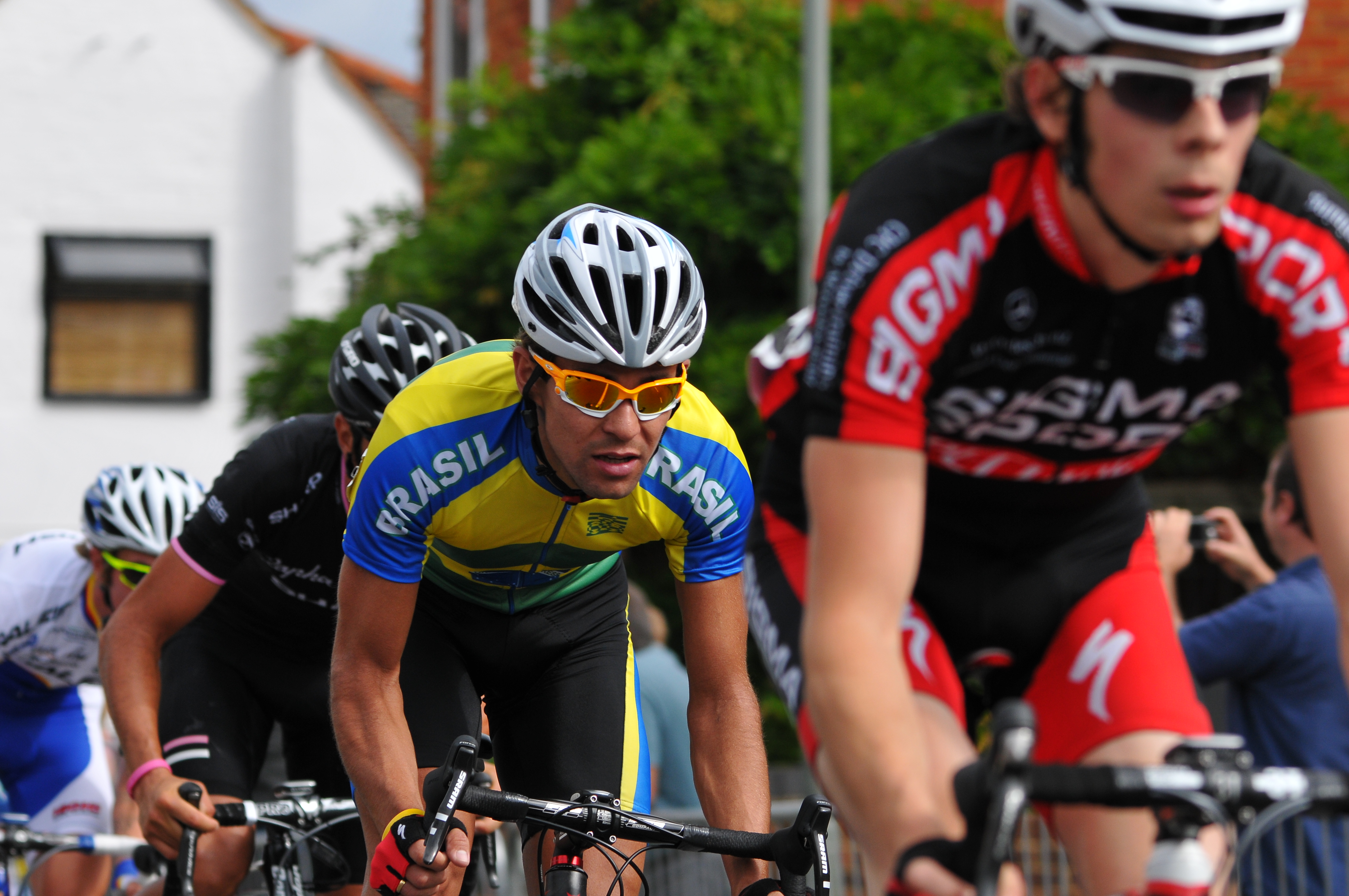 The Breakaway in the London to Surrey cycle classic. From right to left,Tom Murray, Cleberson Weber, Kristian House and Liam Holohan going through Ripley.